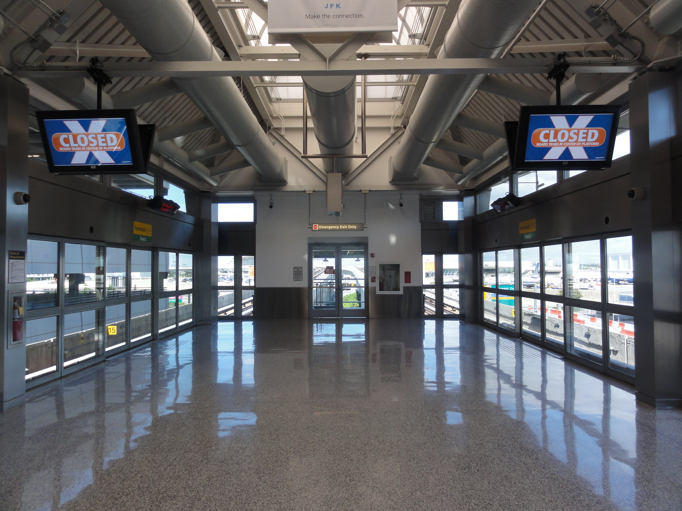 2010/00/17-20 NYC Trip. 2010/00/17 At JFK.